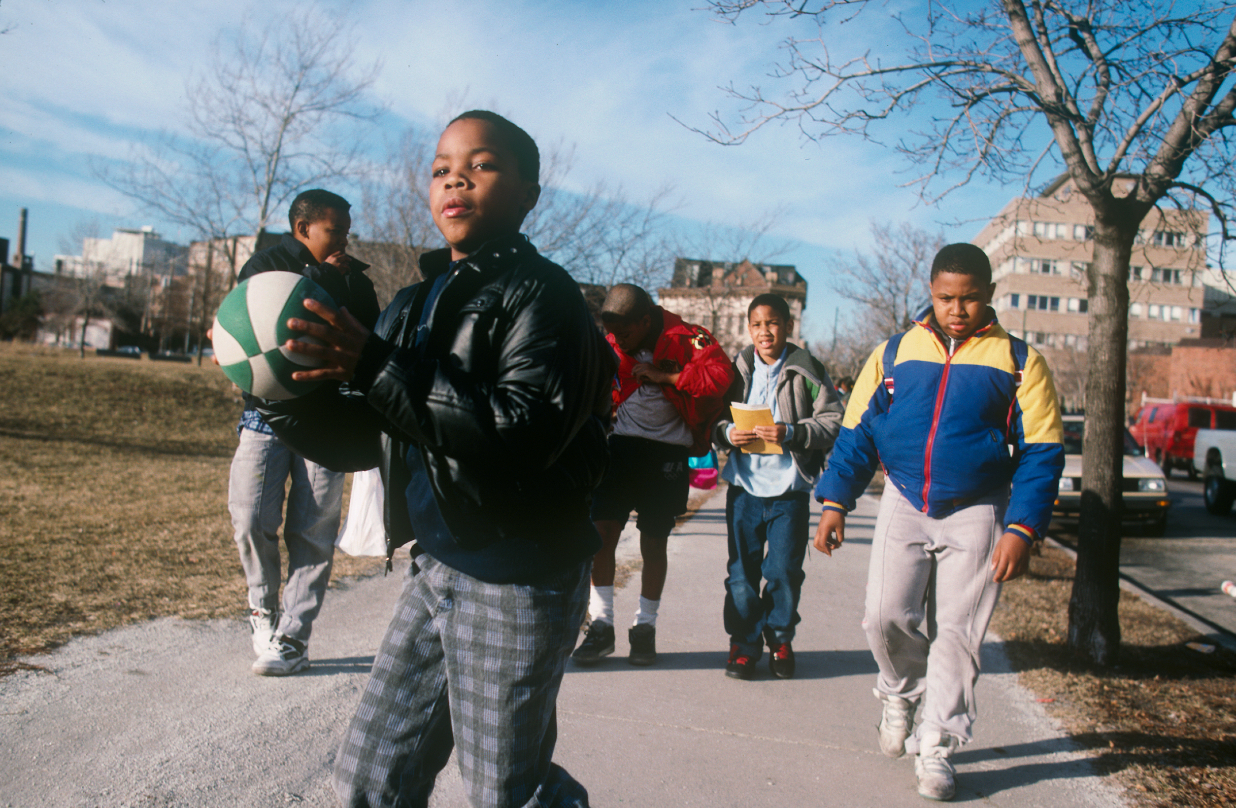 This photograph is part of the extended photographic essay "Chicago in the Reagan Era" by Jeff Wassmann.